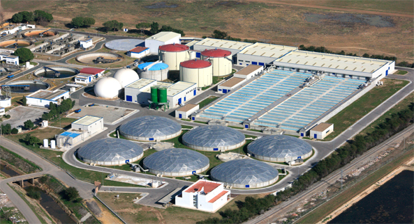 Air sight of the New EDAR EMASESA's Ranilla.